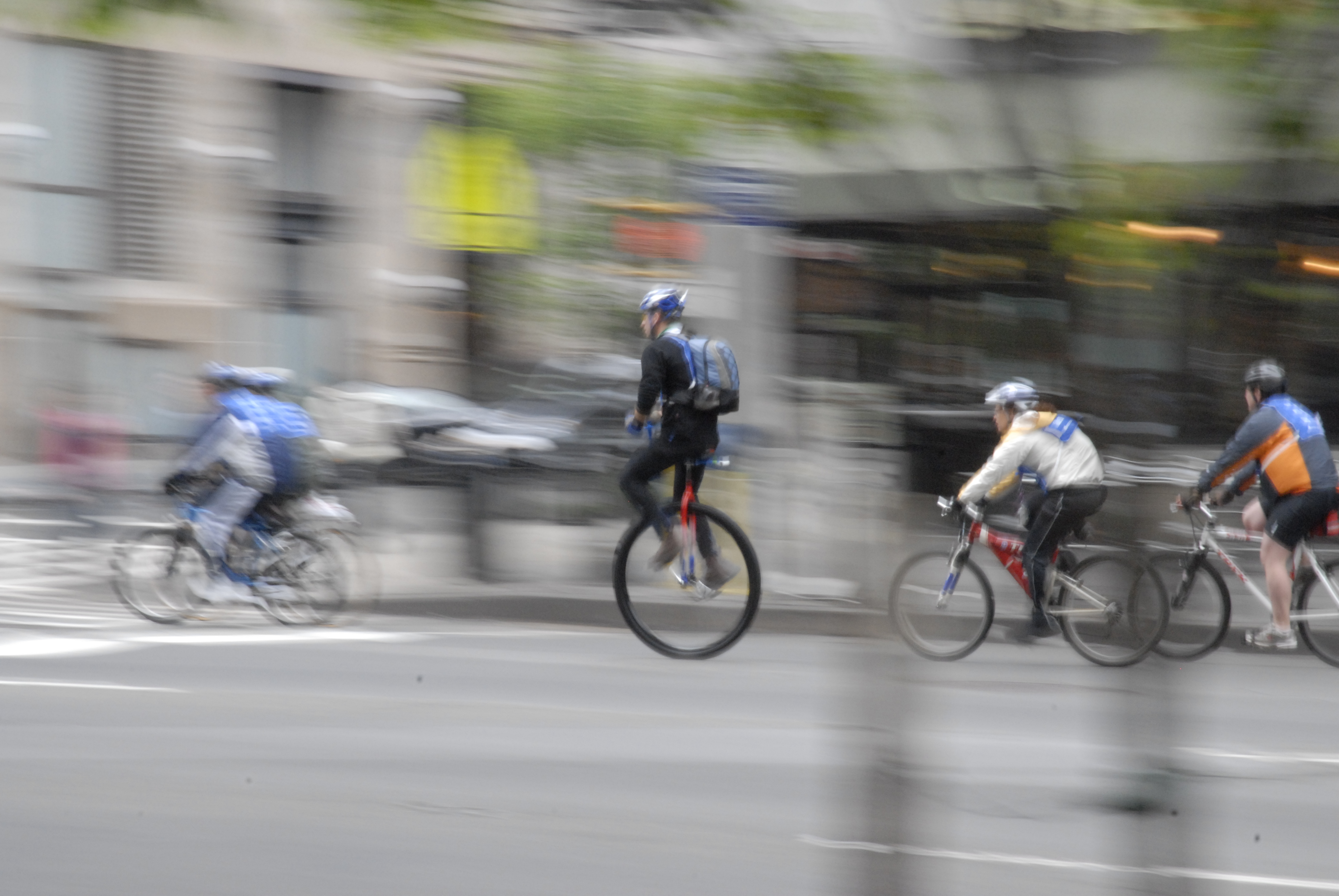 Unicycle at the Five Boro Bike Tour Taken in Midtown Manhattan, New York, May 2008